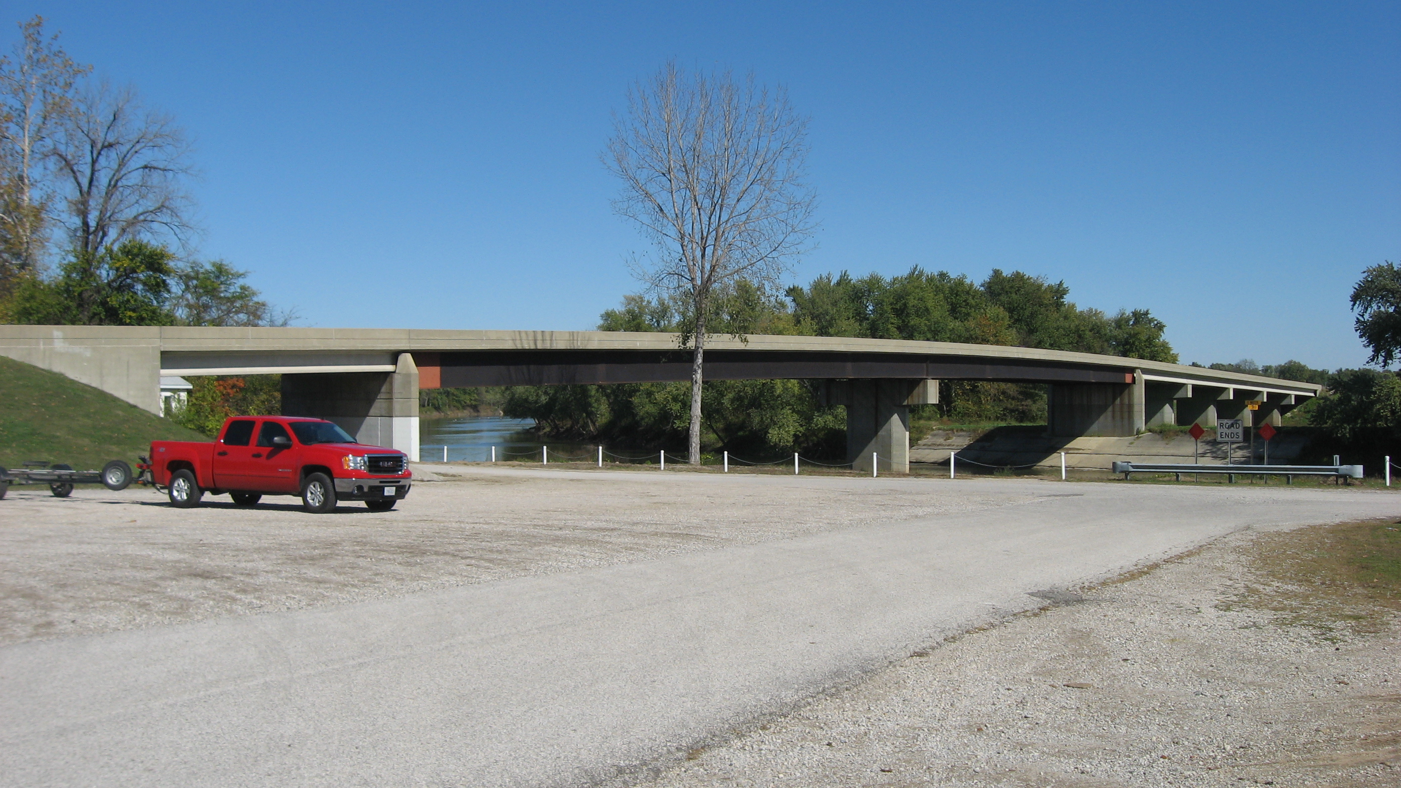 Southern (downstream) side of the bridge that carries Indiana State Road 154 over the Wabash River at Hutsonville, Illinois, United States. Picture is taken from near Main Street in Hutsonville.